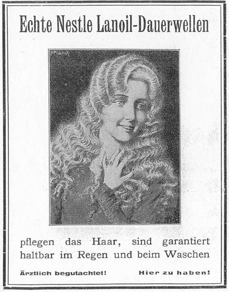 Ad from turn of the century for Nessler's permanent wave process